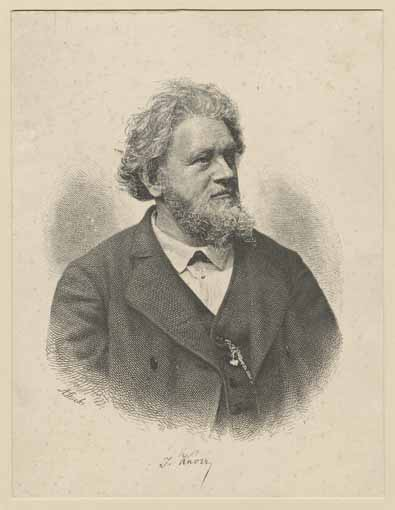 The german newspaper-publisher Julius Knorr (1826-1881)